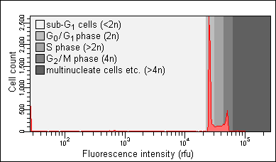 Histogram of flow cytometry analysis of healthy Jurkat cells stained with a fluorescent dye that stains DNA quantitatively (that is, in proportion to its amount in the cell). Five different classes of cells can be identified by the presence of absence of cell count peaks: Cells with a DNA content of 2n but 4n. Such cells are usually multinucleate (that is, they contain multiple nuclei) or otherwise aberrant. Determining the amount of sub-G0/G1 cells is a method of identifying and to some extent quantifying apoptosis. This method is often referred to as the Nicoletti assay in honour of its inventor, the Italian physician Ildo Nicoletti.